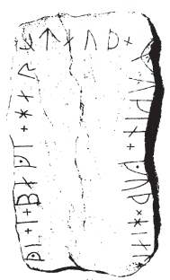 The A-side of the runestone Sö 318. The inscription reads §A + ku[fi]nkR [+ au]k + hulmkaiR + li[tu * raisa + sta]in + at [+ ur]aiþ + faþur + sin [+ a]uk + [at] + uiborg * sy(s)[tu](r) [+ sin](a) * han + §B turuk(n)[a]þi + i + bagi + harmtauþ + [mukin + guþ + hial](b)(i) [+] (a)(n)[t] + þaiRa + auk + gus + moþiR. In English "§A Kylfingr and Holmgeirr had the stone raised in memory of Vreiðr, their father and in memory of Vébjôrg, their sister. He §B drowned in Bágr, a death of great grief. May God and God's mother help their spirits."